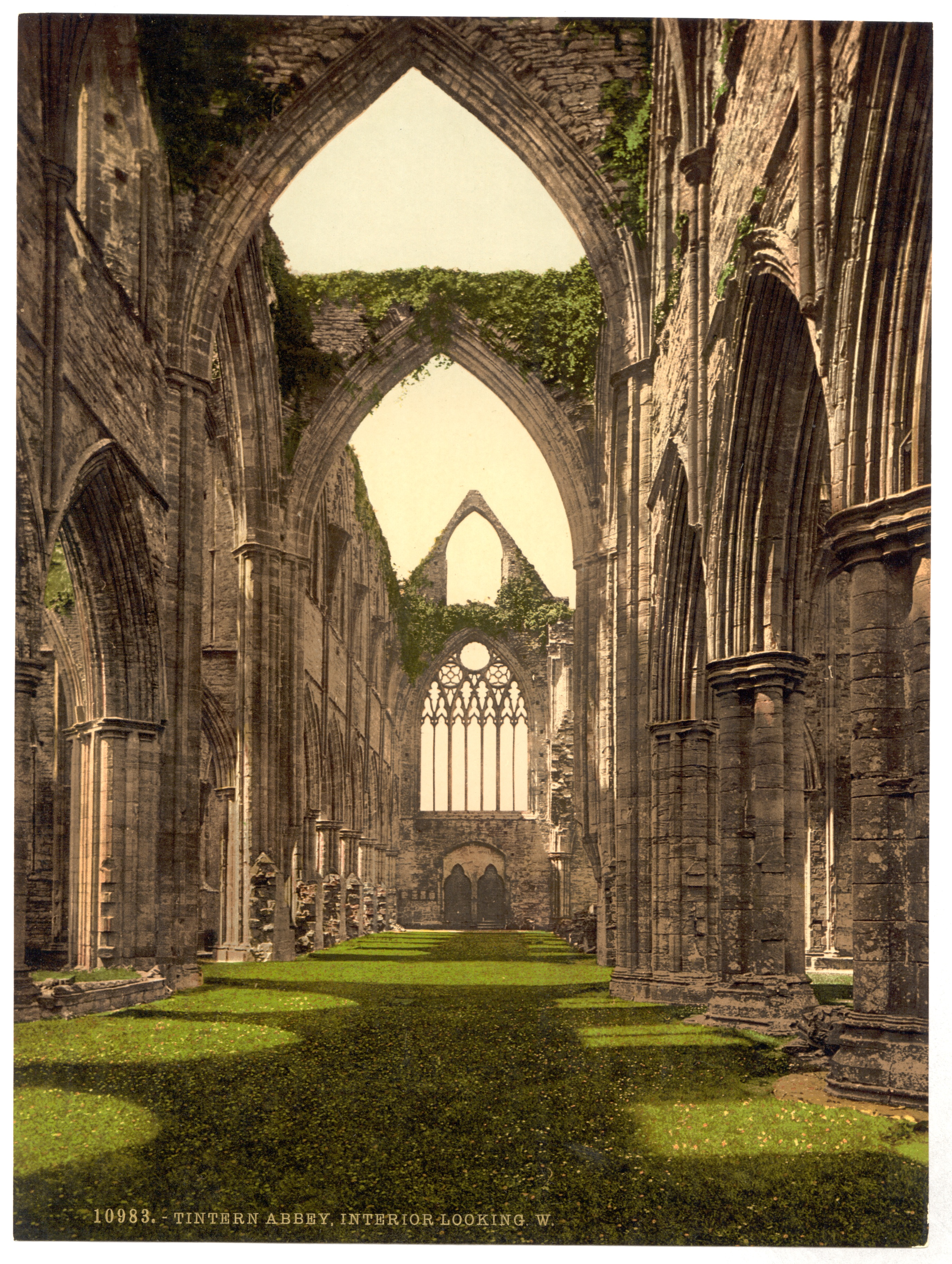 Title from the Detroit Publishing Co., Catalogue J-foreign section, Detroit, Mich. : Detroit Publishing Company, 1905.; Forms part of: Views of England in the Photochrom print collection.; Print no. "10983".